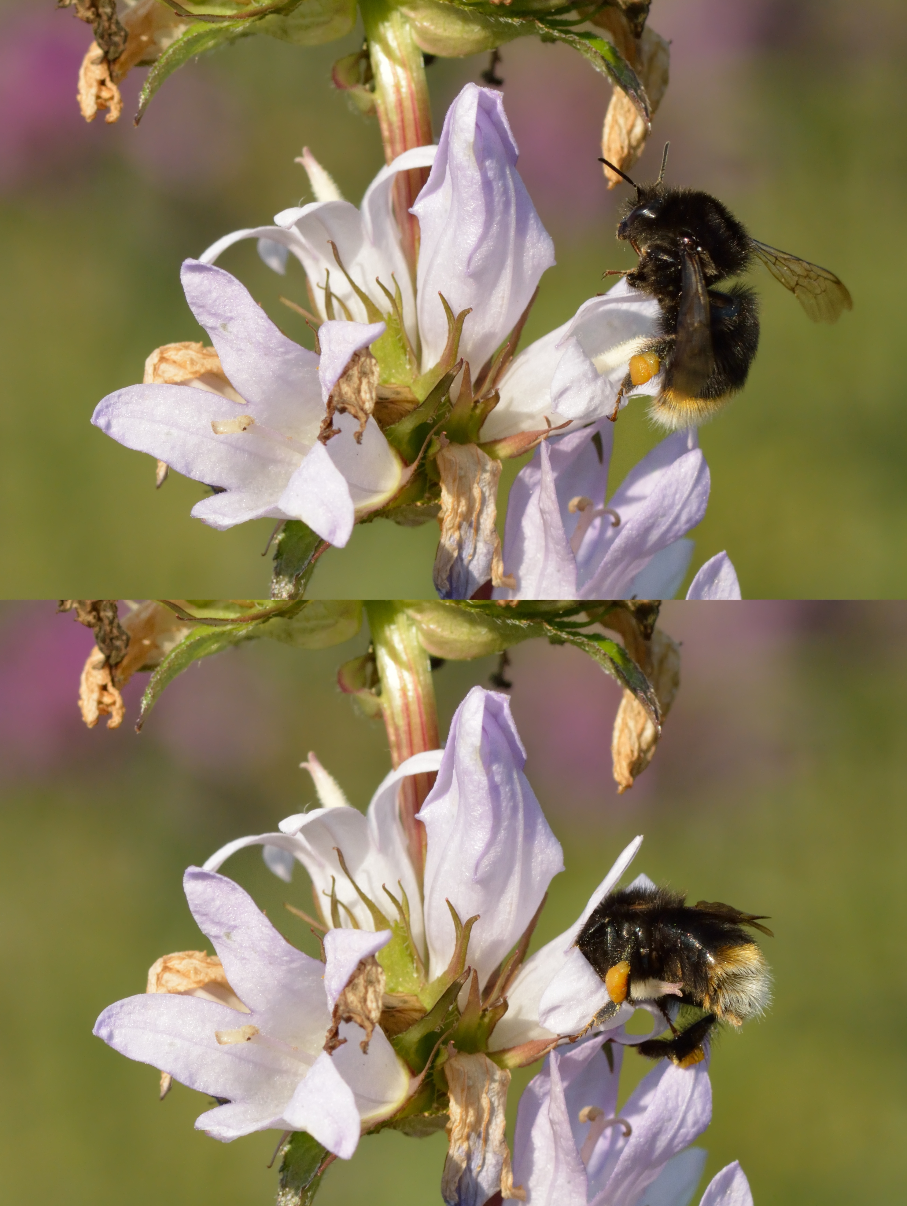 Broken-belted bumblebee (Bombus soroeensis subsp. proteus) on the clustered bellflower (Campanula glomerata). Keila, Northwestern Estonia.